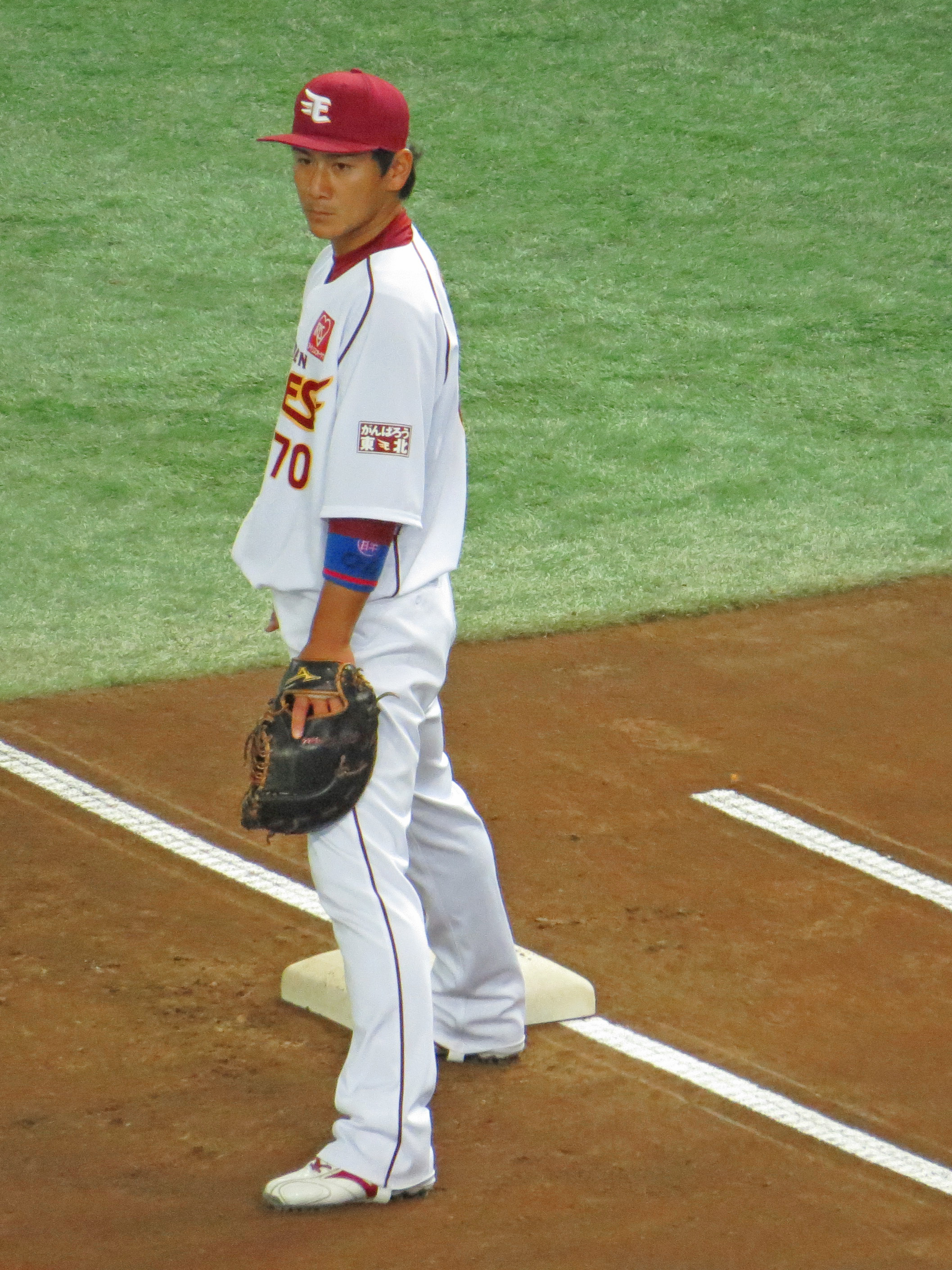 Yusuke Kosai, infielder of the Tohoku Rakuten Golden Eagles, at Tokyo Dome.